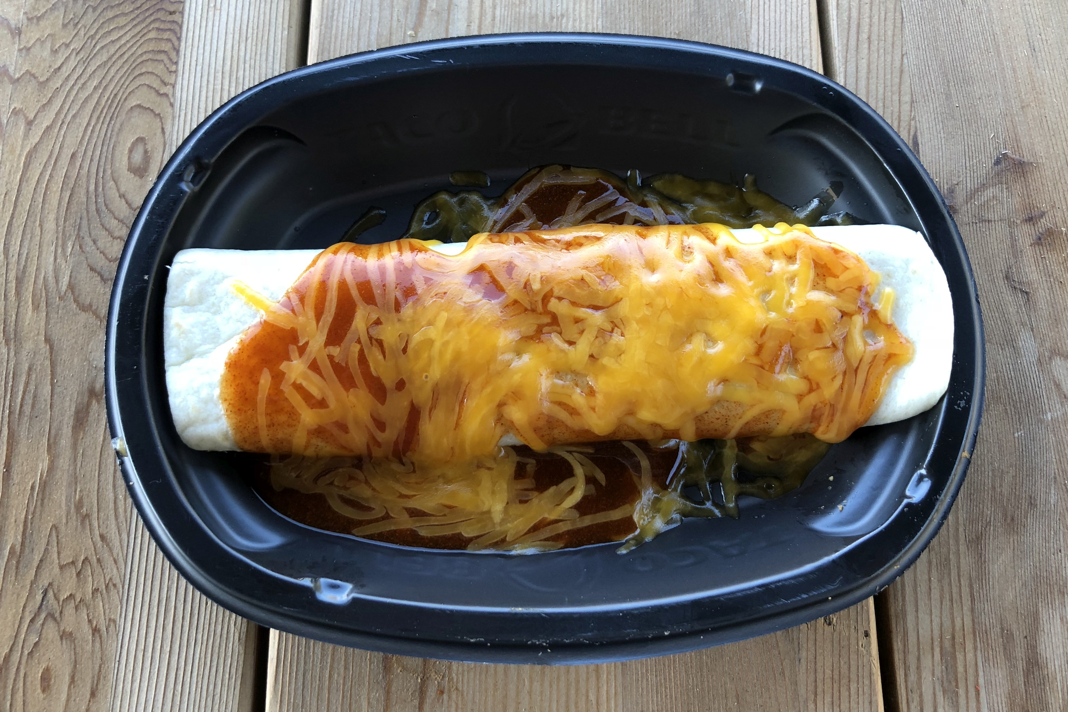 An Enchirito ordered at a Taco Bell, 2018